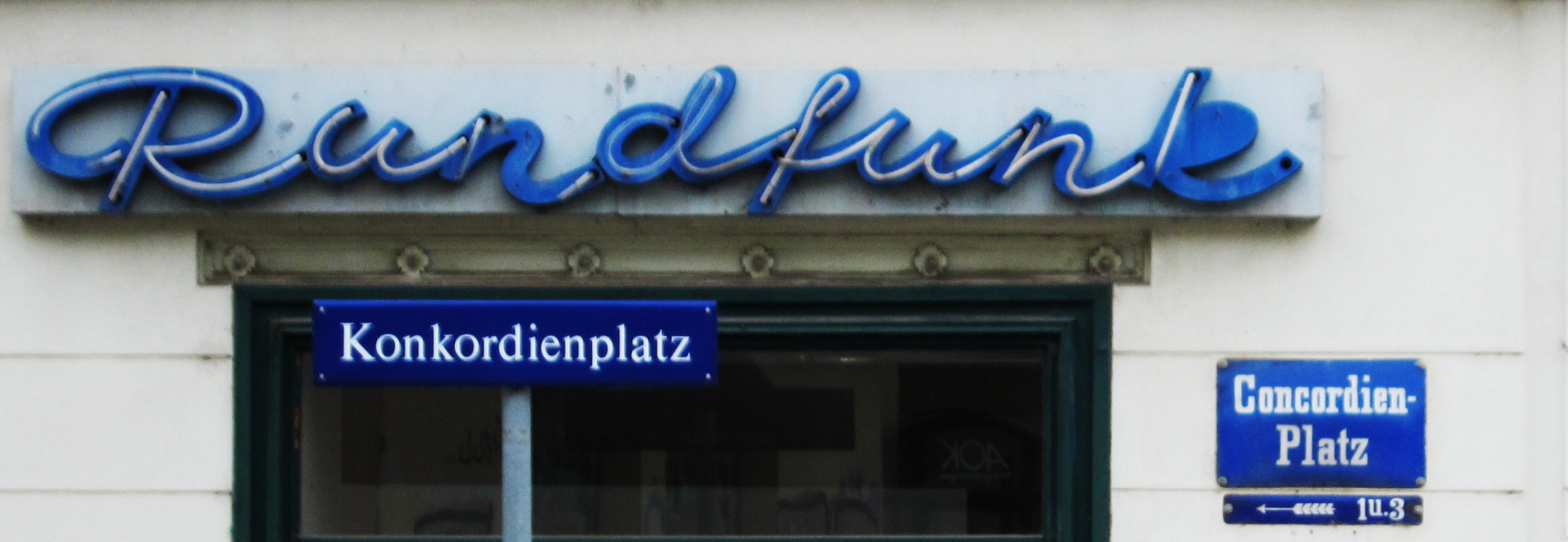 Street signs with both spellings Konkordienplatz and Concordienplatz.